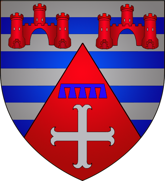 Coat of arms of the municipality of Garnich, Luxembourg